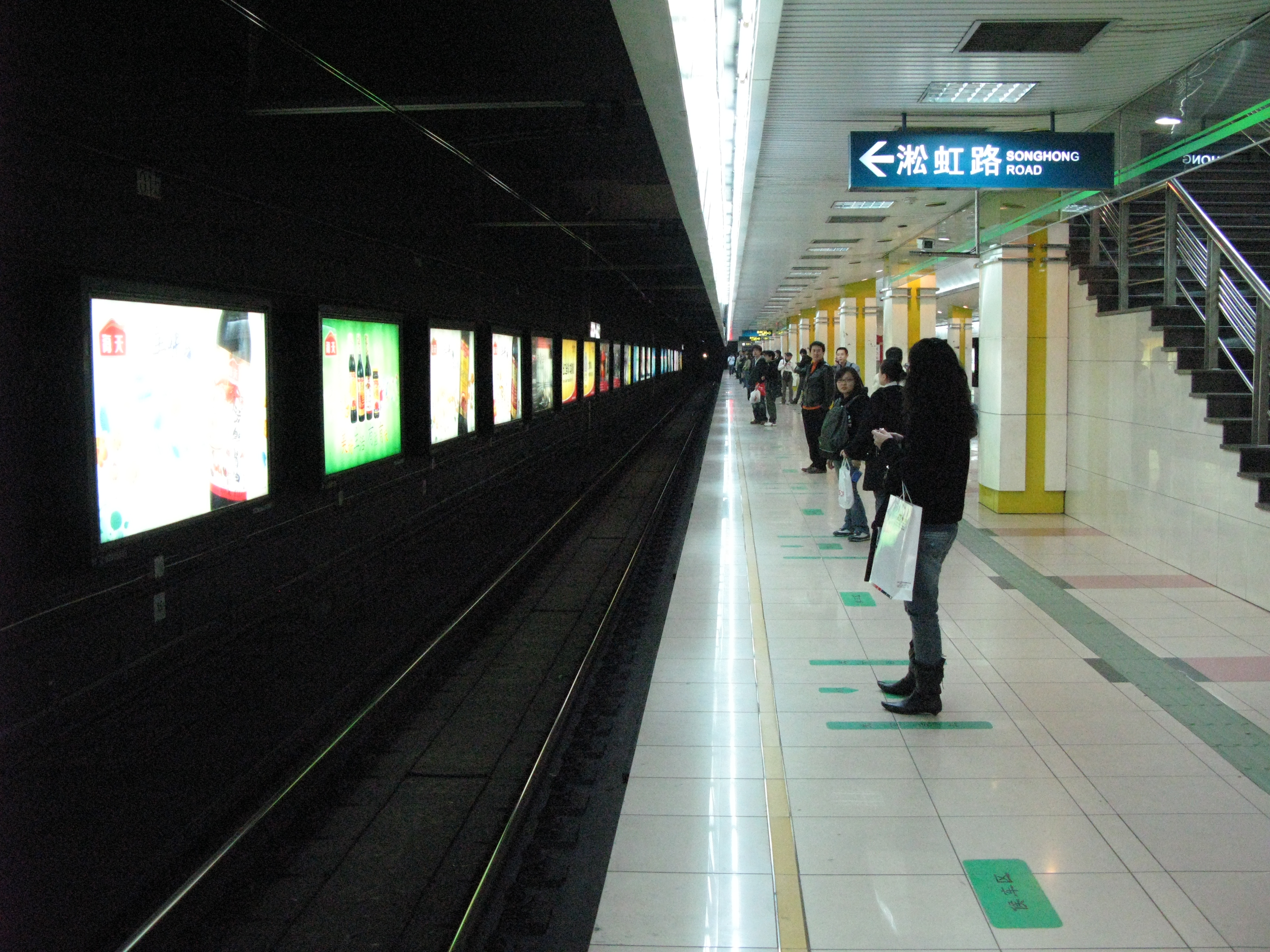 Waiting for the train at Longyang Road station of the Shanghai Metro. This is the north platform on Line 2, next stop is Century Park.